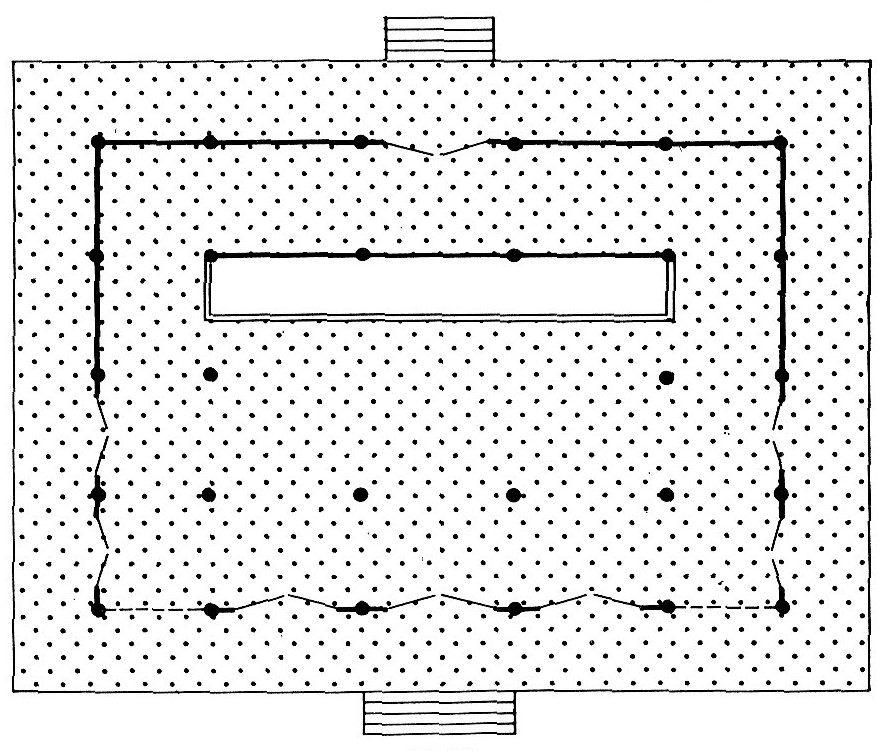 Layout of Akishino-dera, Nara